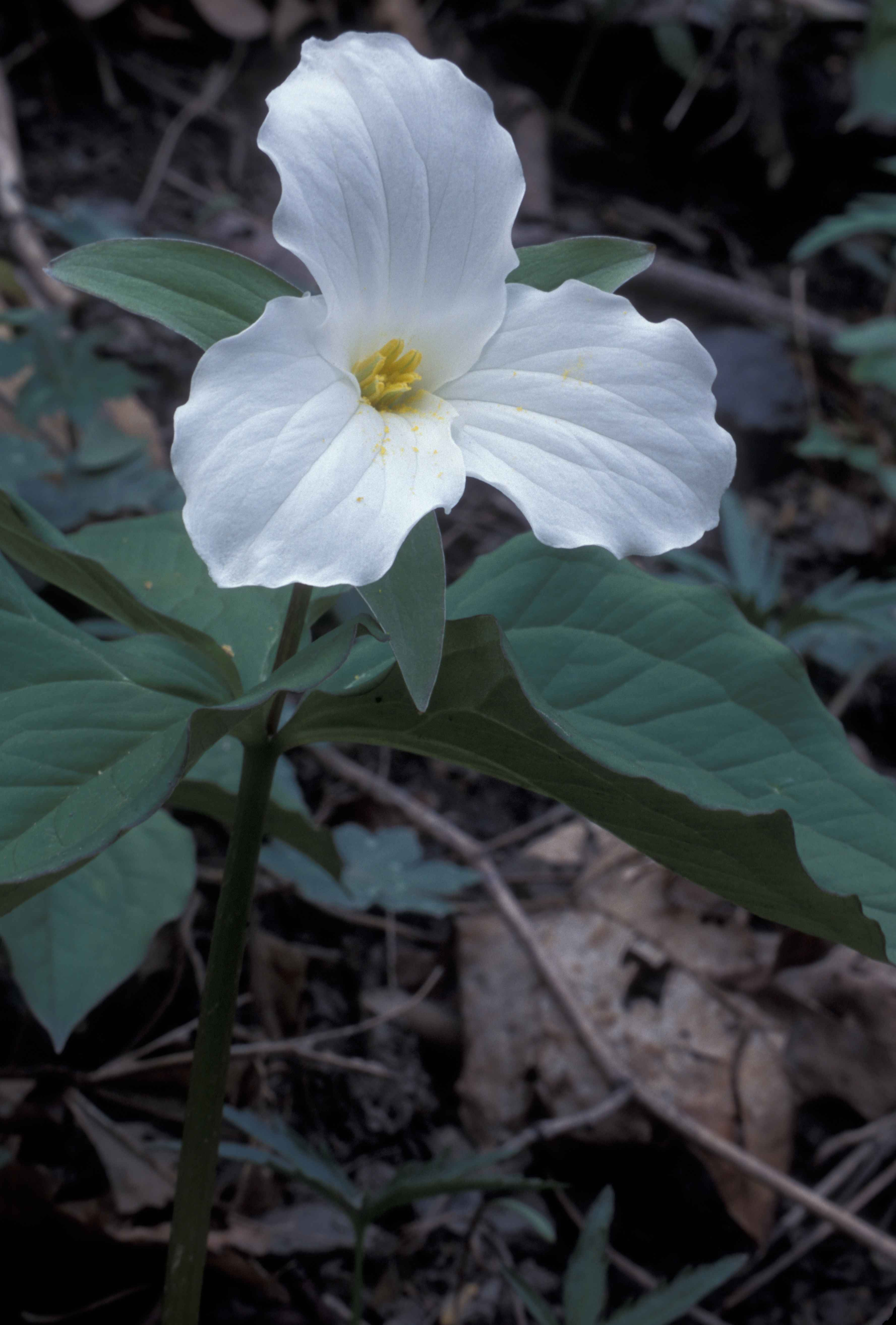 Image title: A close view of the large white flower of a trillium plant Trillium grandiflorum Image from Public domain images website